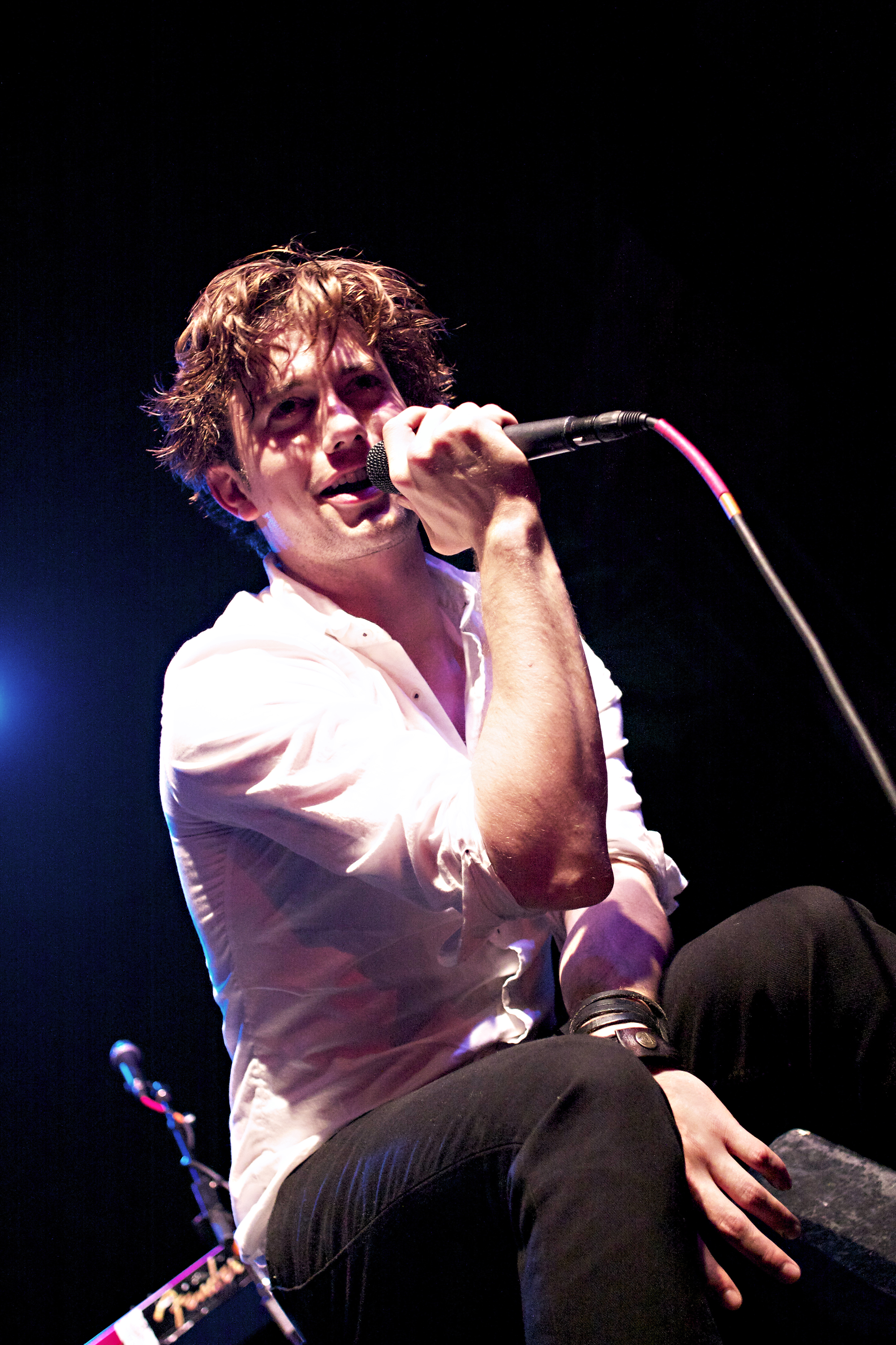 Jackson Rathbone performing an improv song with band 100 Monkeys in Indianapolis, IN on the Liquid Zoo tour.